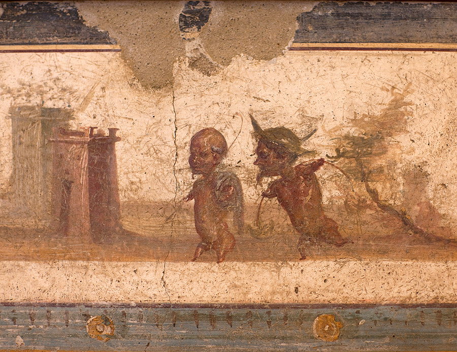 Pygmy (Greek mythology)